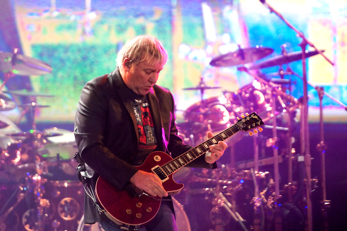 Alex Lifeson (Rush) playing on the 2010–2011 Time Machine Tour, Ahoy, Rotterdam, The Netherlands